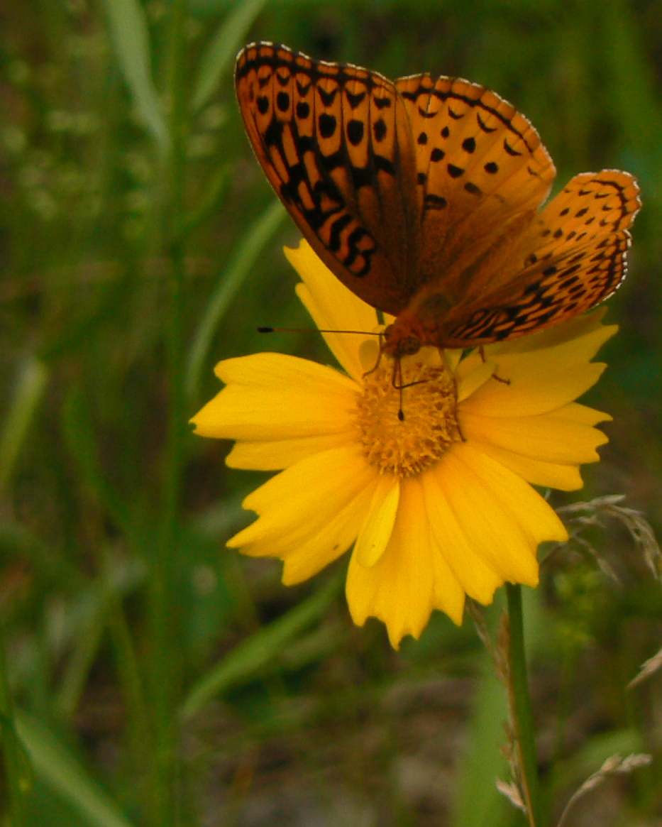 Great Spangled Fritiillary (Speyeria cybele); subfamily Heliconiinae